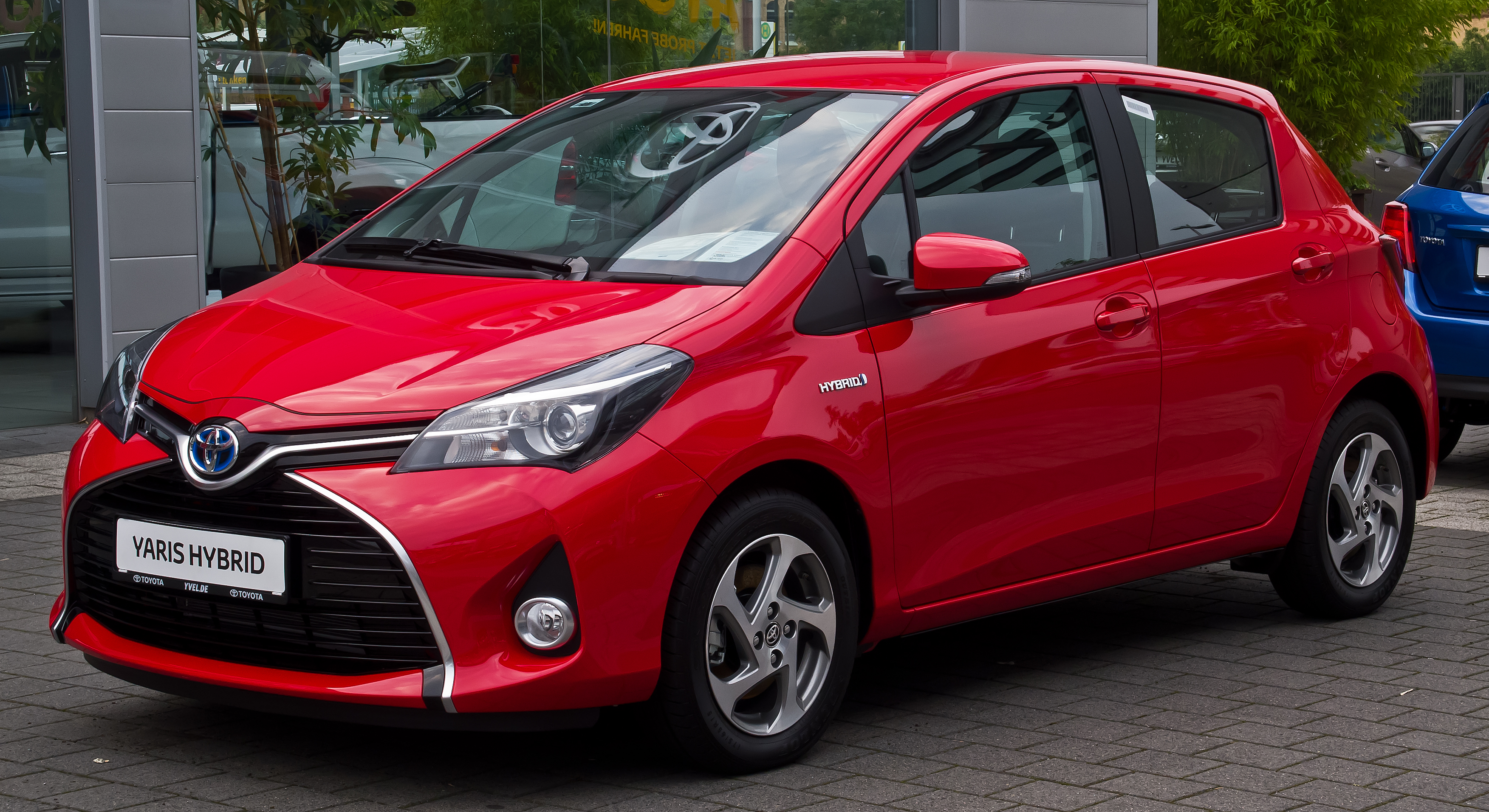 Toyota Yaris Hybrid Comfort (XP130, Facelift)